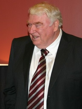 U.S. Senator Susan Collins, who co-chairs the Senate Diabetes Caucus, was joined recently by football legend and Coach John Madden, and a bipartisan, bicameral group of her colleagues in a press event calling for Congress to take action to avoid 35 percent cuts in crucial diabetes research.